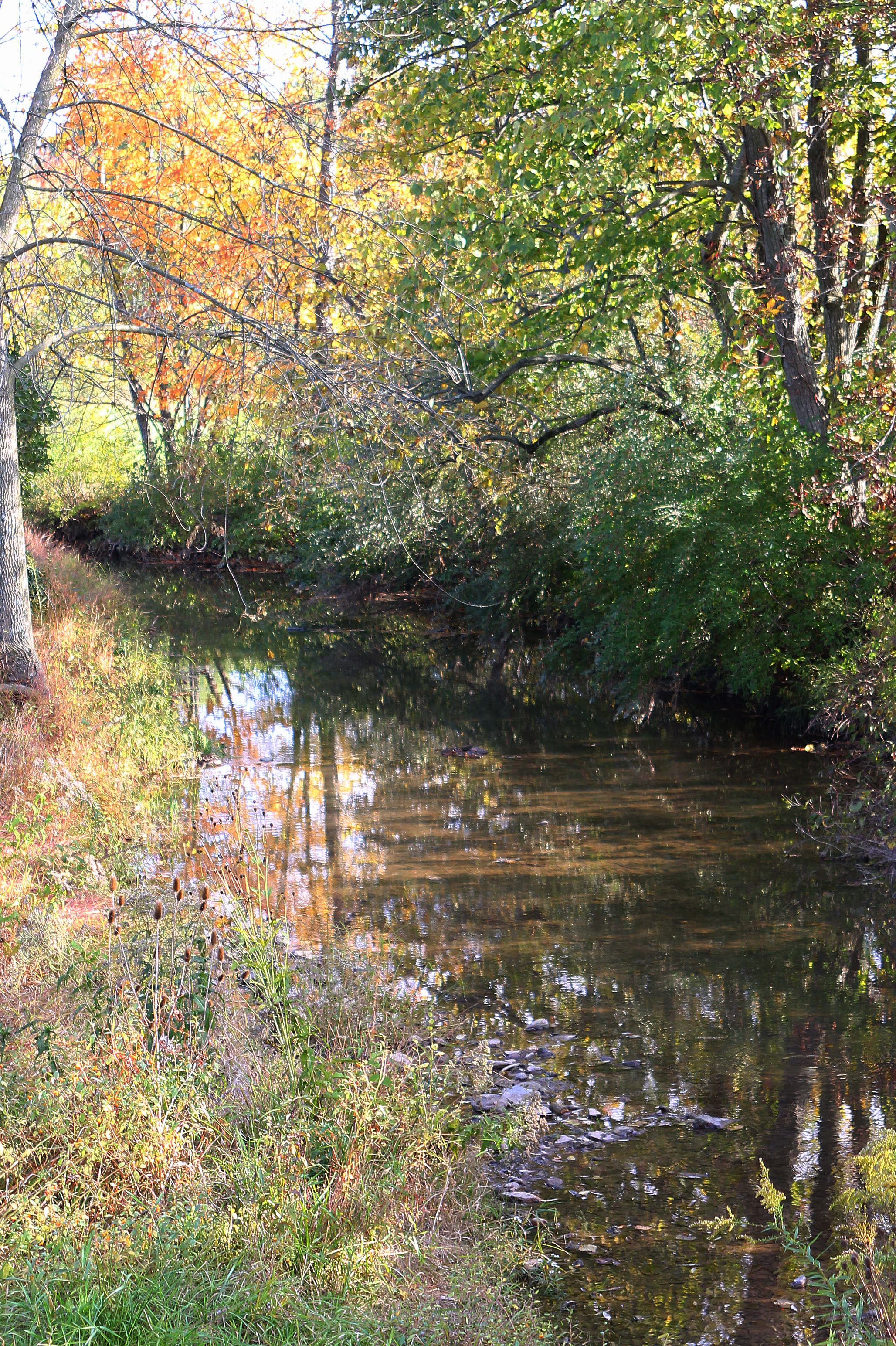 Black Run